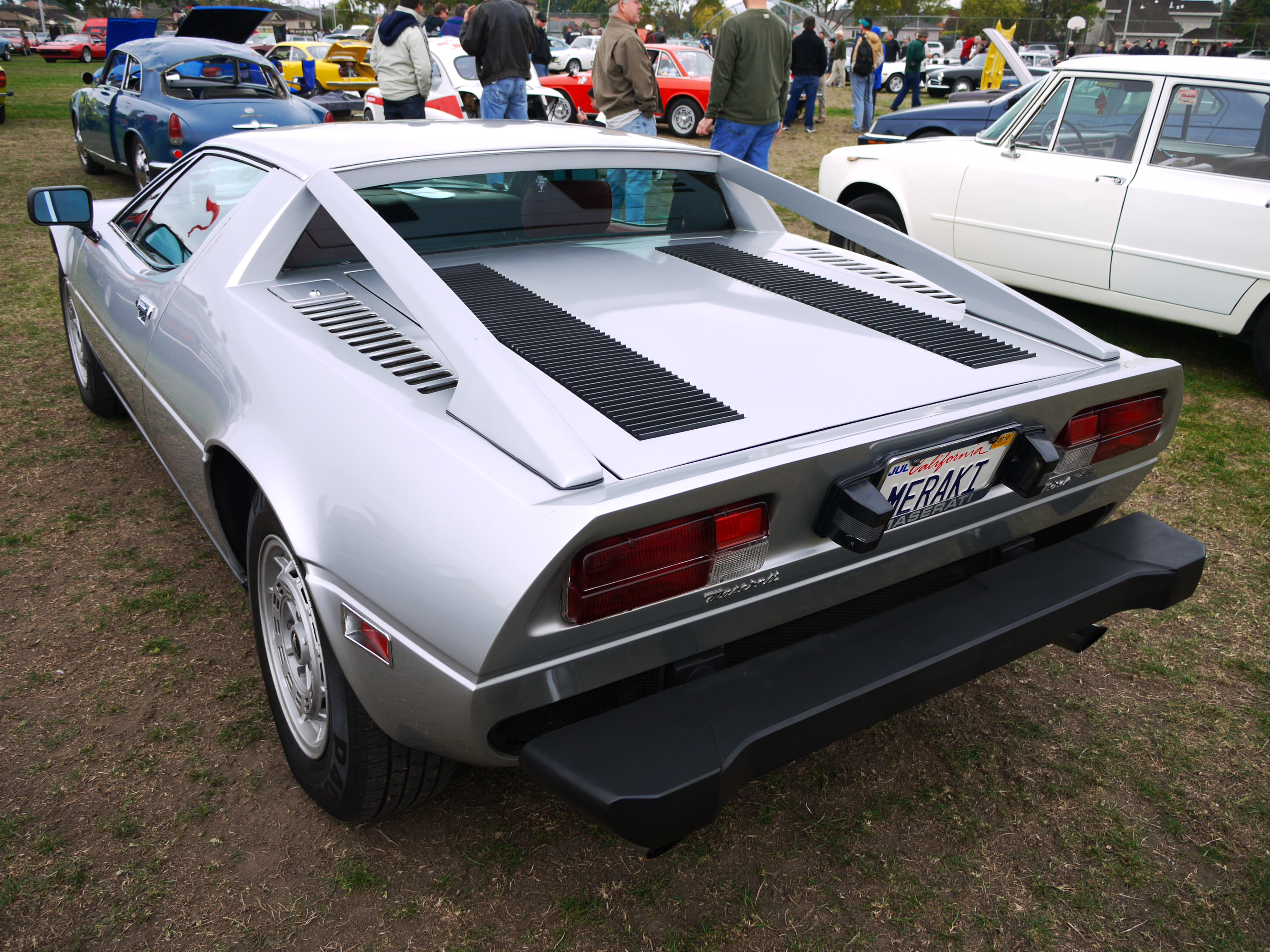 2009 Alameda All Italian Car & Motorcycle Show